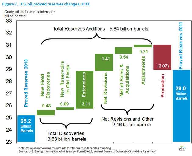 Although US proved oil reserves grew by 5.84 billion barrels in 2011, only 8 percent of the increase was due to new field discoveries (US EIA)